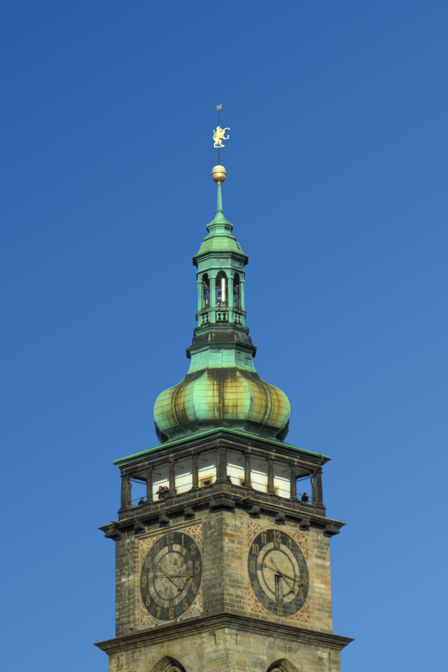 White Tower (Hradec Králové) top, angle